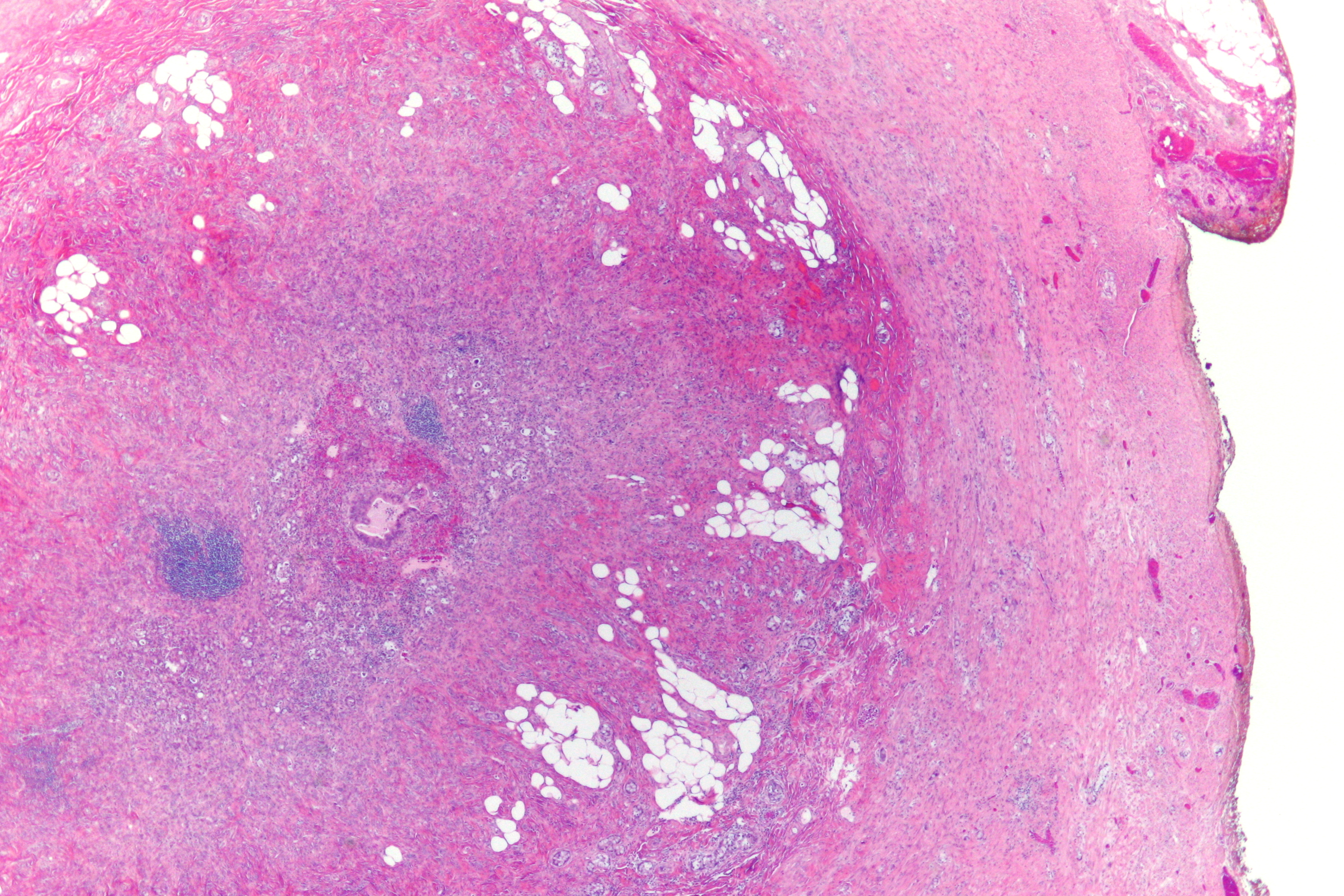 Very low magnification micrograph of a neuroendocrine tumour with goblet cell differentiation, also known as goblet cell carcinoid and crypt cell carcinoma. H&E stain. Features: Biphasic tumour with: Neuroendocrine features, i.e. stippled chromatin. Goblet cells. Related images Low mag. Intermed. mag. High mag. Very high mag. Intermed. mag. High mag. Very high mag.